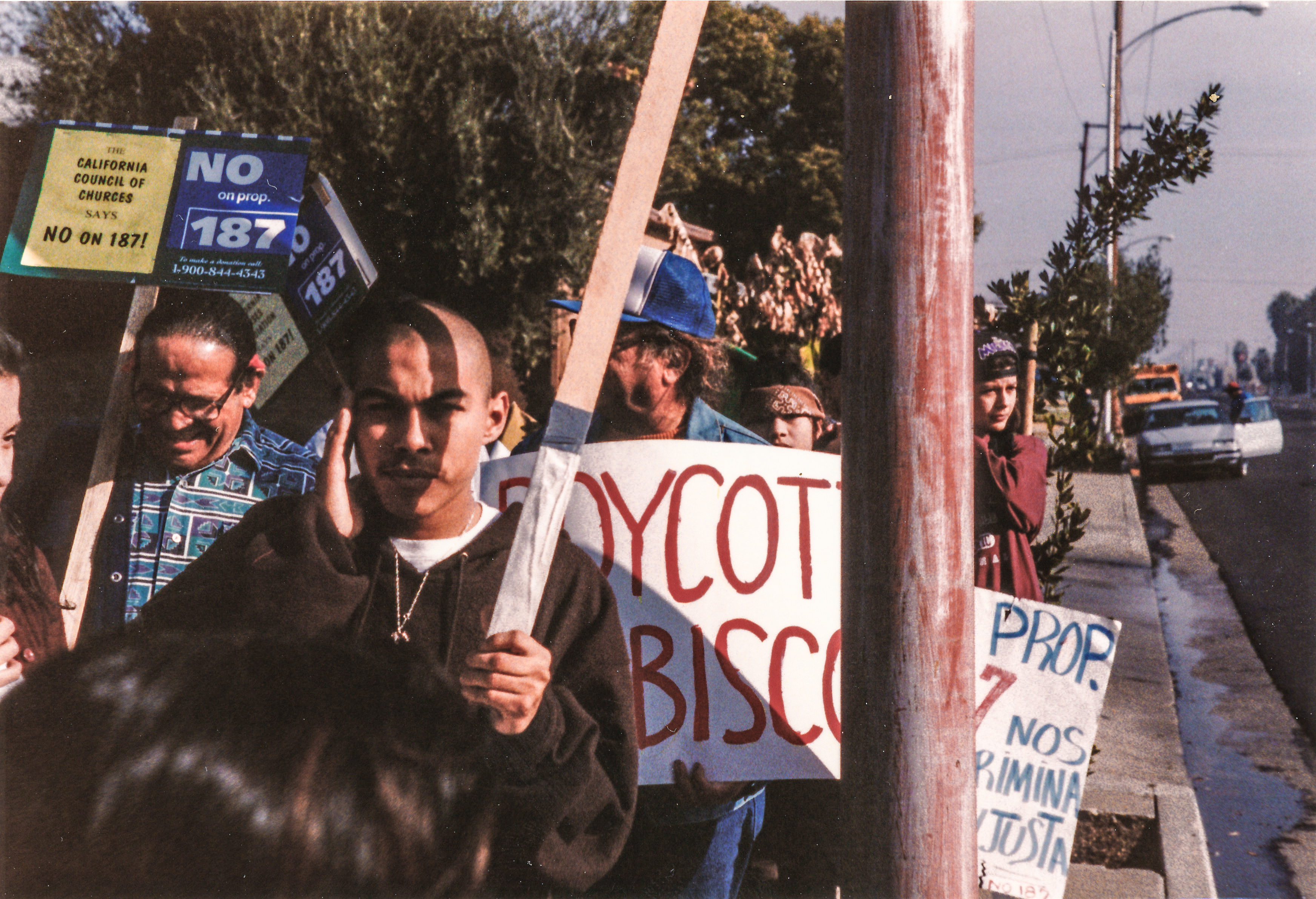 A roll of film from 1994 - previously scanned and posted here, but with some of the images missing.